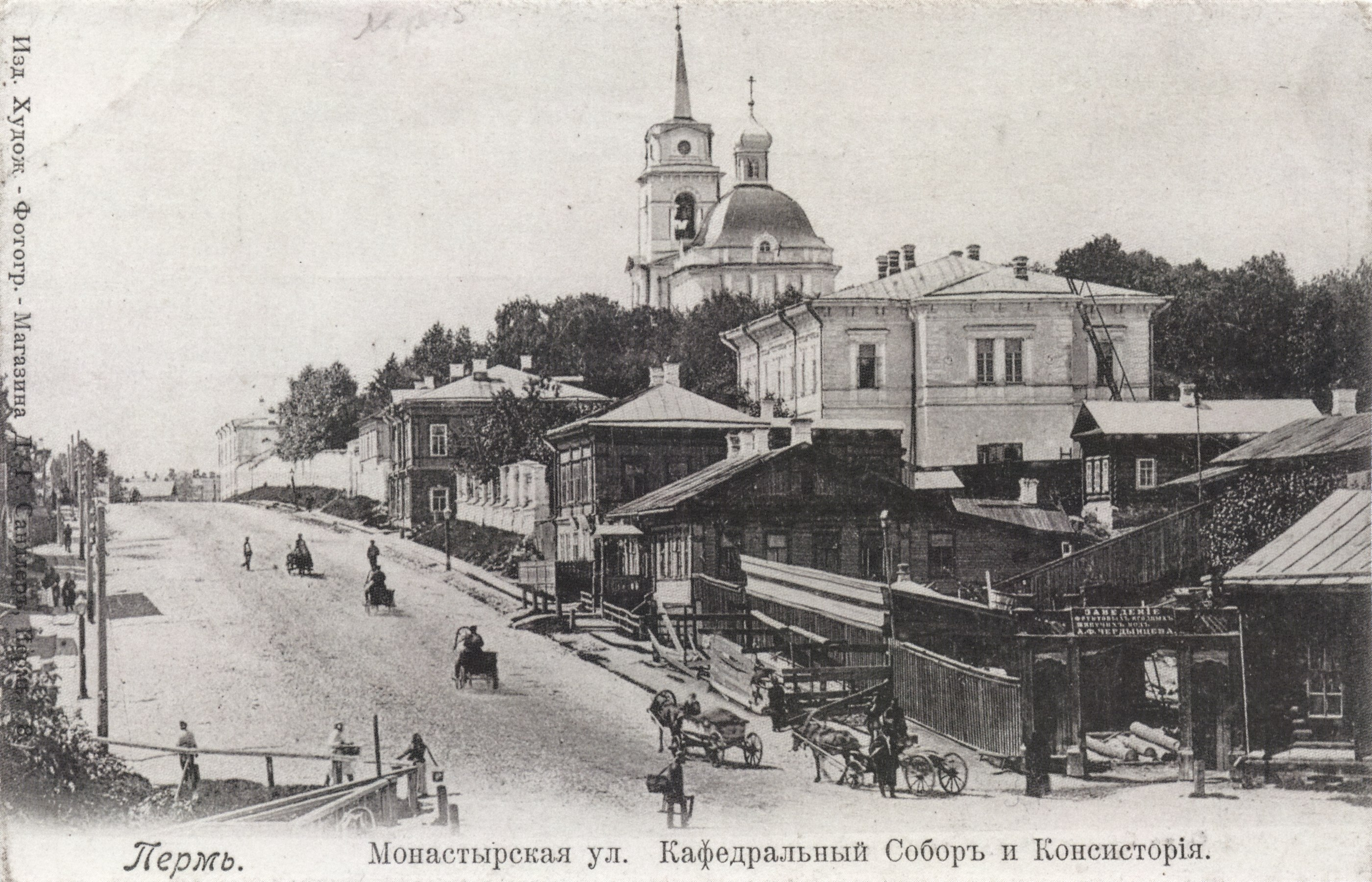 Кафедральный собор и Консистория